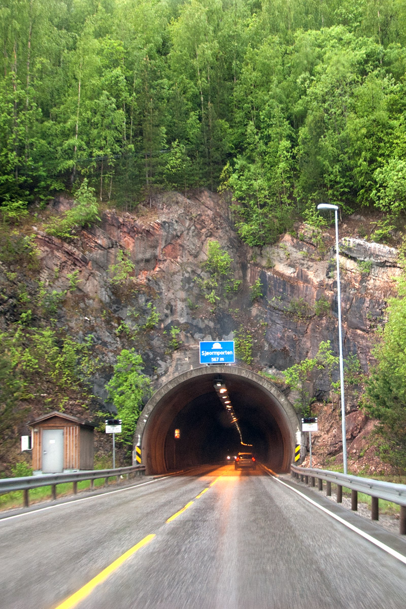 "Sjøormporten" tunnel on national road 36, Telemark, Norway